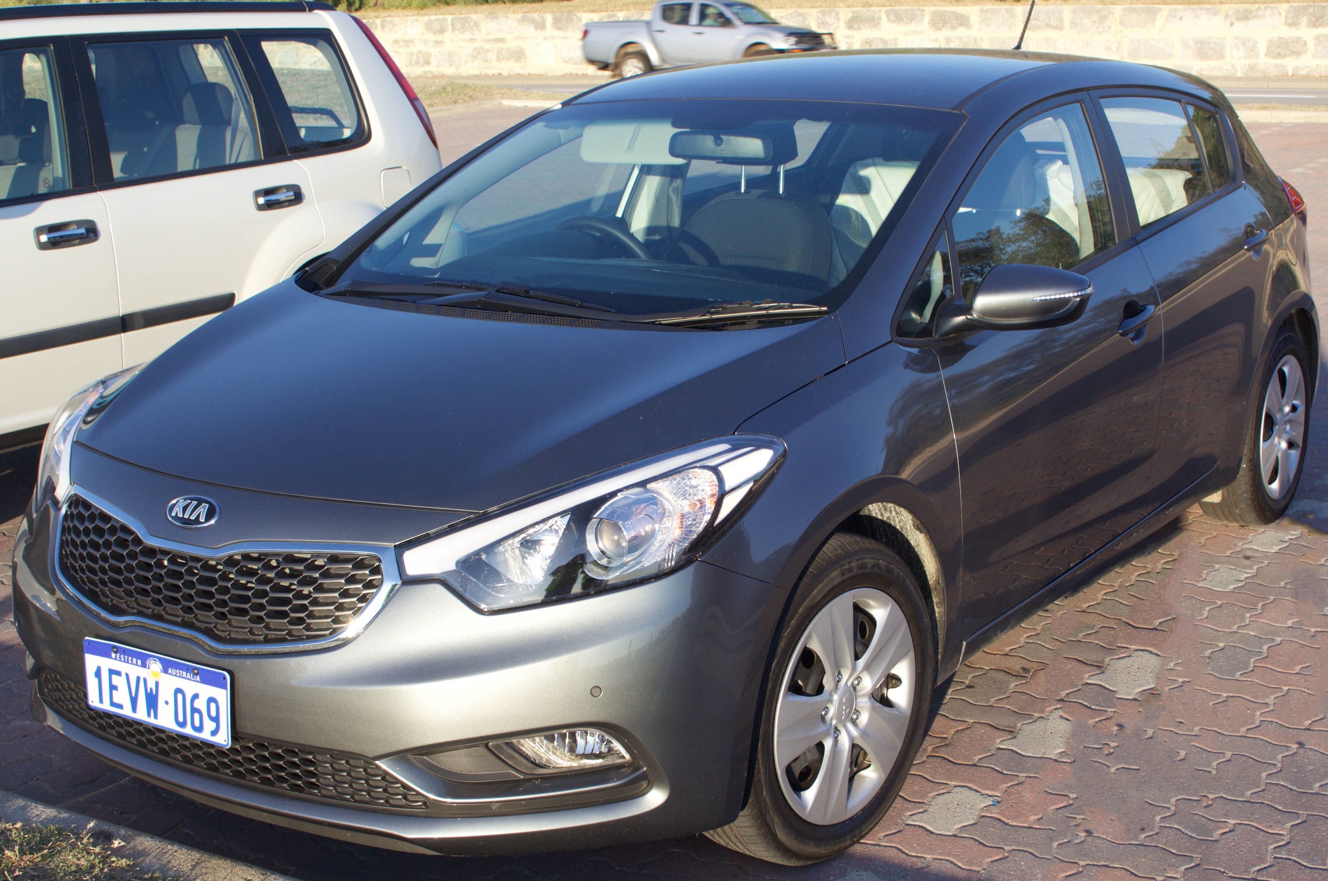 2015 Kia Cerato (YD MY15) S hatchback. Photographed in Mosman Park, Western Australia Australia.